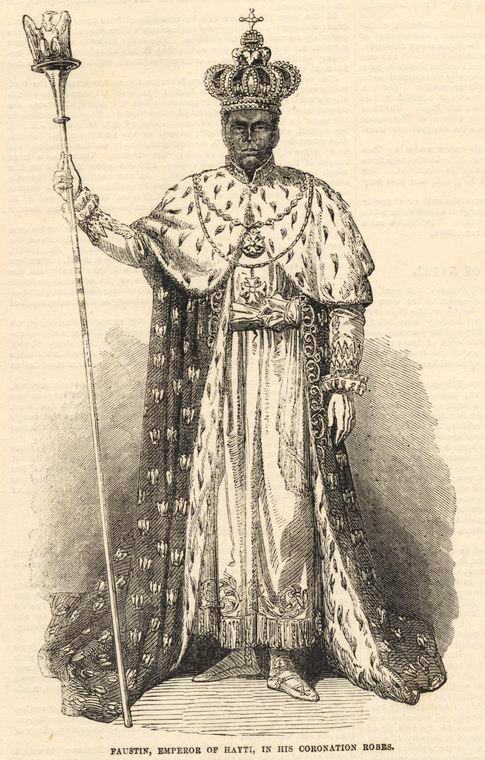 Faustin I of Haiti (Original text: Originaly from The Illustrated London News, February 16, 1856')